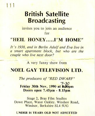 Ticket for a planned filming of Heil Honey I'm Home